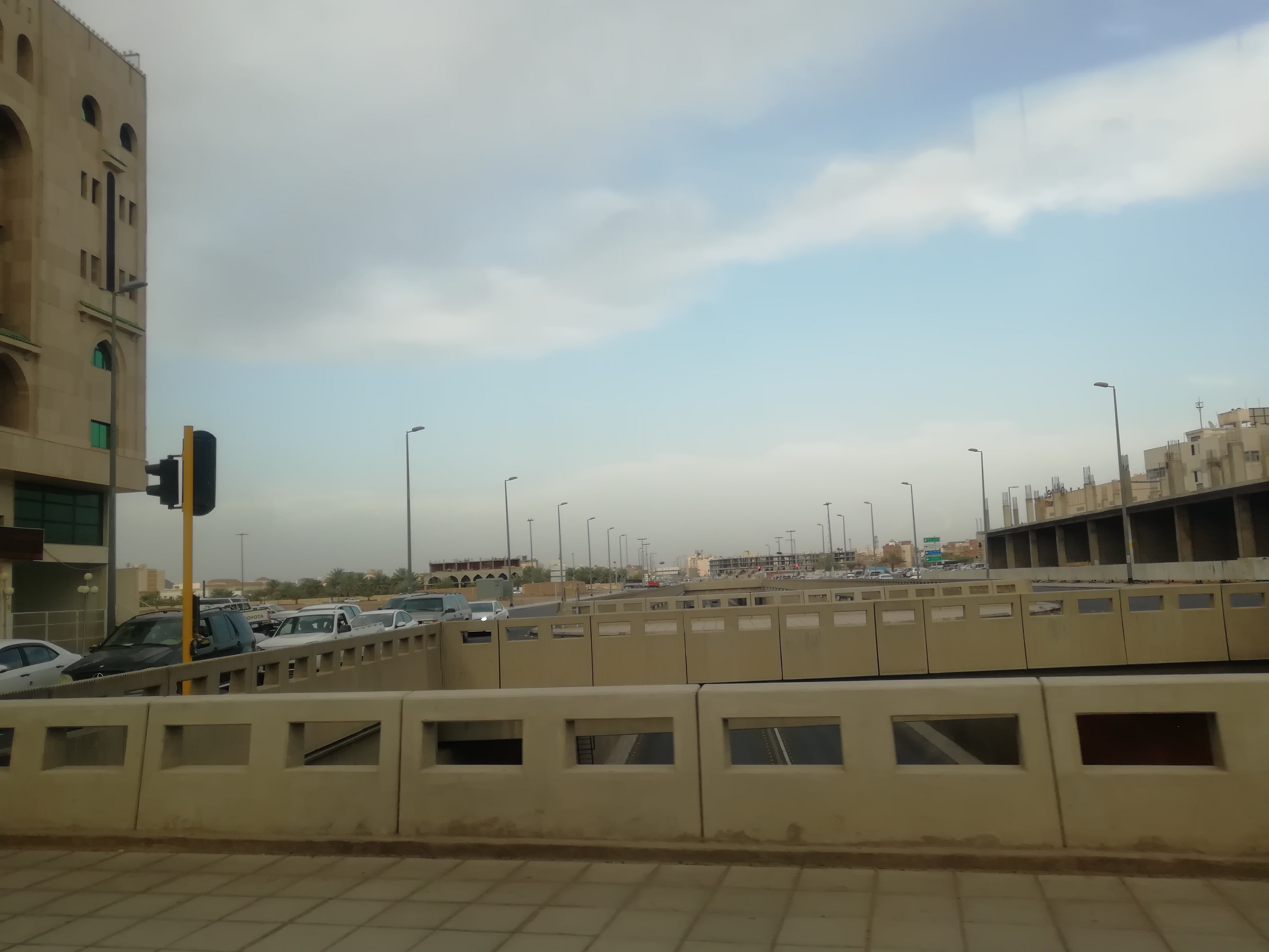 al-Madinah al-Munawarah The farm in the far left may be the end of the Khandaq.